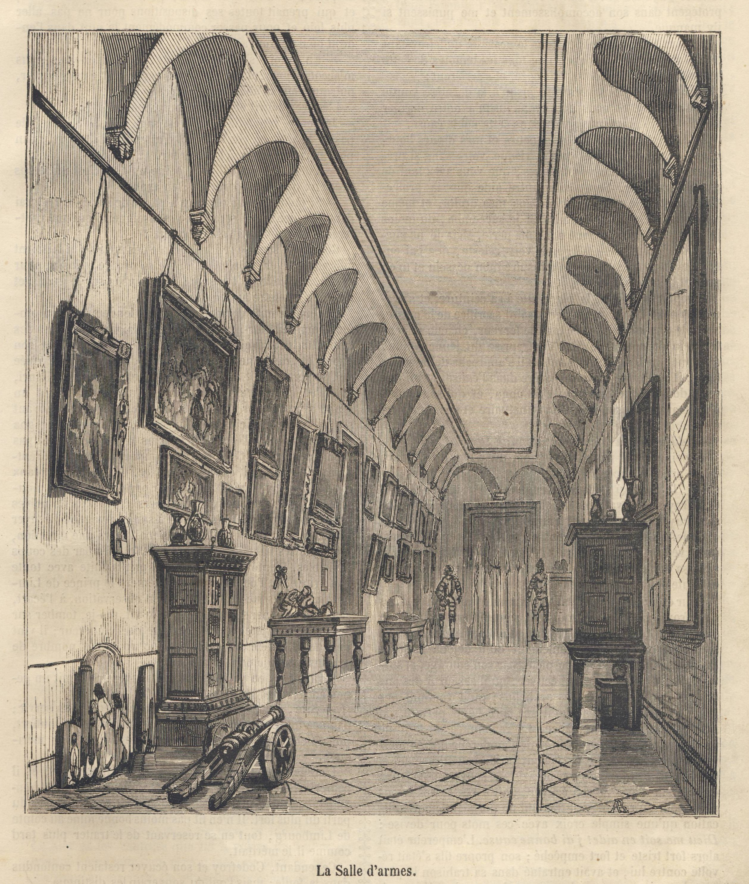 Castle Bouchout (Meise Belgium), "La Salle d'armes" as published in January 1843 in the "Musée des Familles"